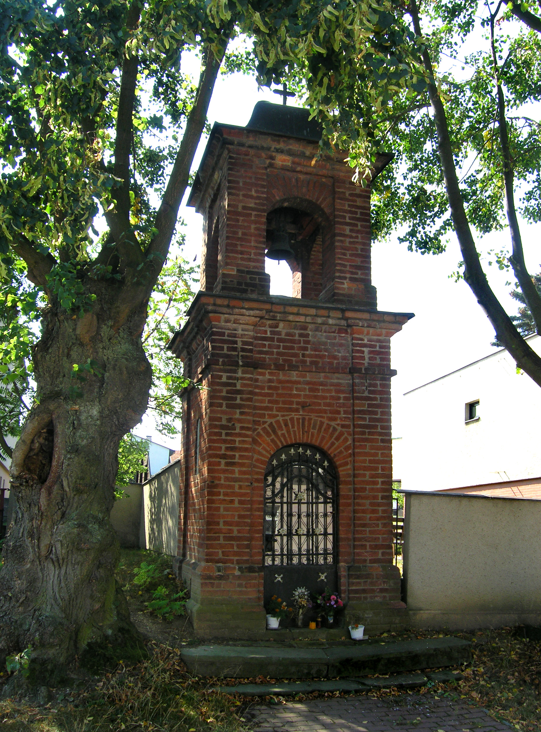 Chapel in Stěžírky, part of Stěžery village, Czech Republic